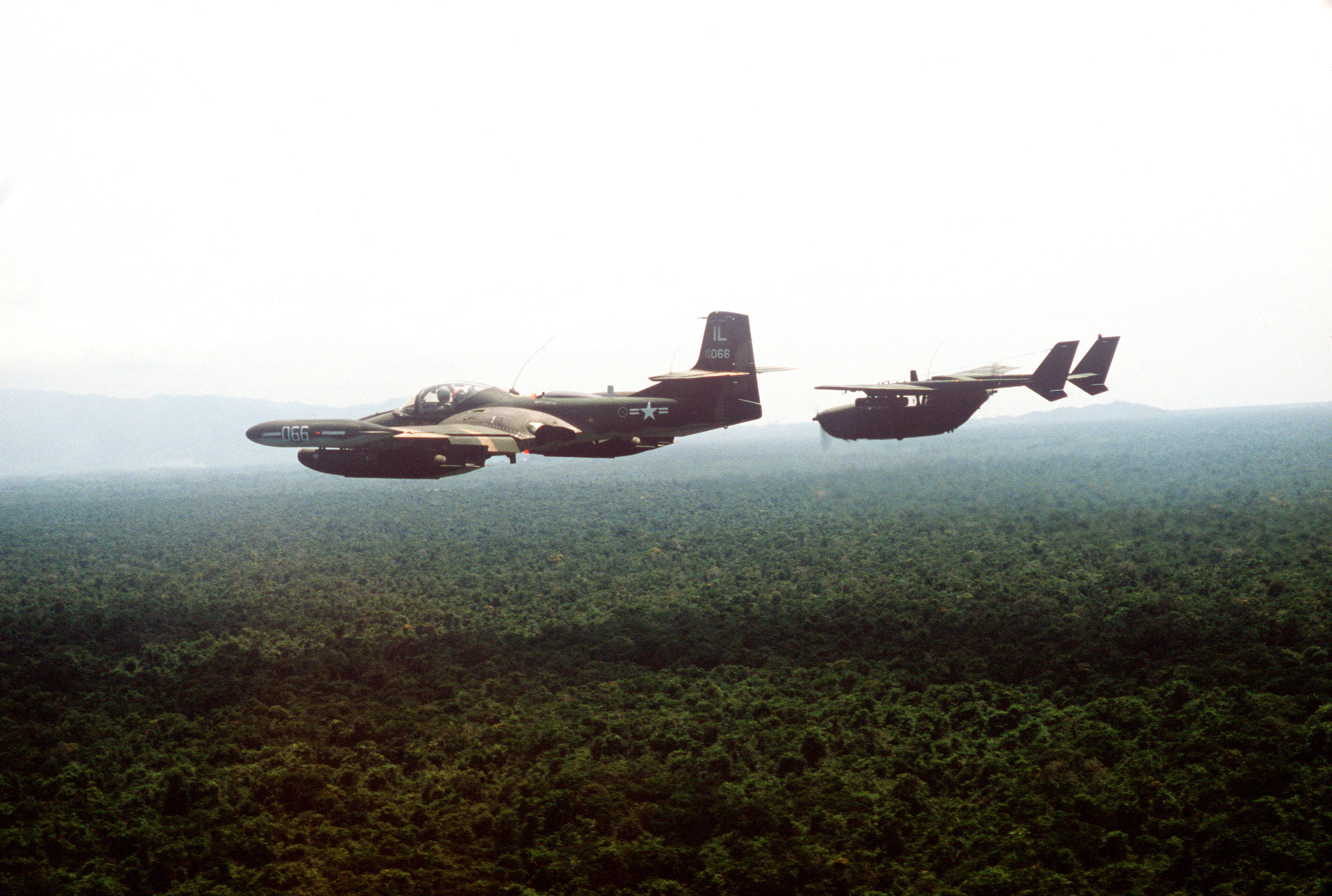 A U.S. Air Force Cessna OA-37B Dragonfly aircraft from the 169th Tactical Air Support Squadron, Illinois Air National Guard, left, and an Cessna O-2A Skymaster aircraft from the 24th Tactical Air Support Squadron, 24th Composite Wing, in formation during exercise "Granadero I" in Honduras on 14 May 1984.